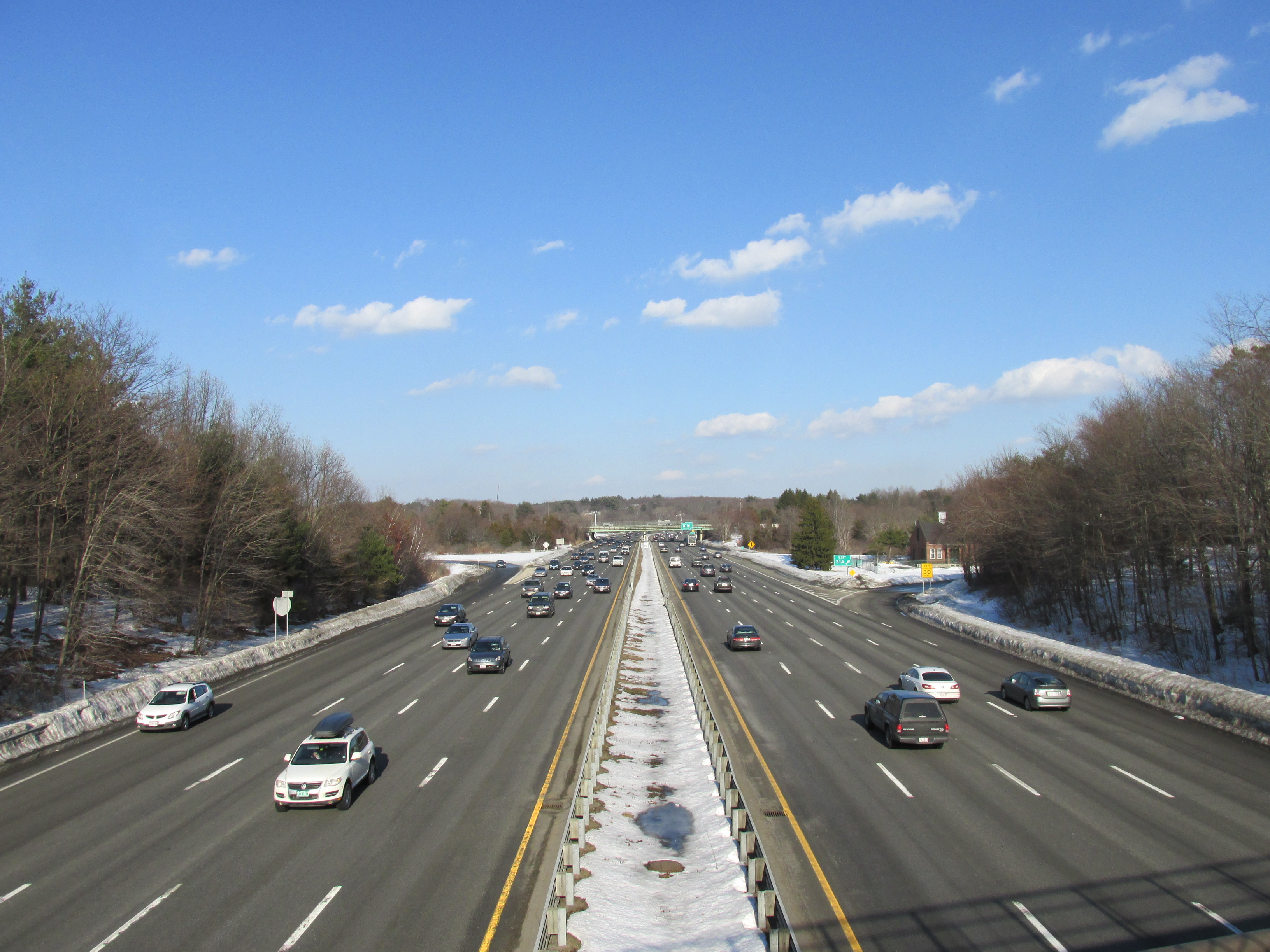 MA Route 128 northbound from the Minuteman Bikeway, Lexington Massachusetts - 2013